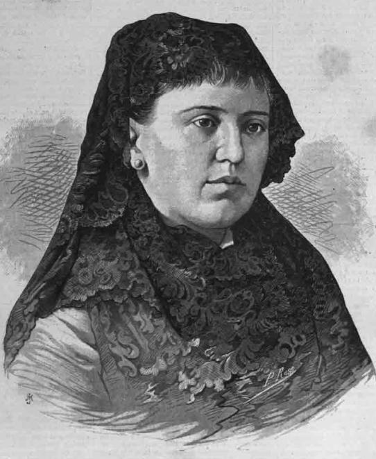 Spanish writer Rosario de Acuña Villanueva de la Iglesia.